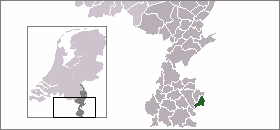 Location of Kerkrade